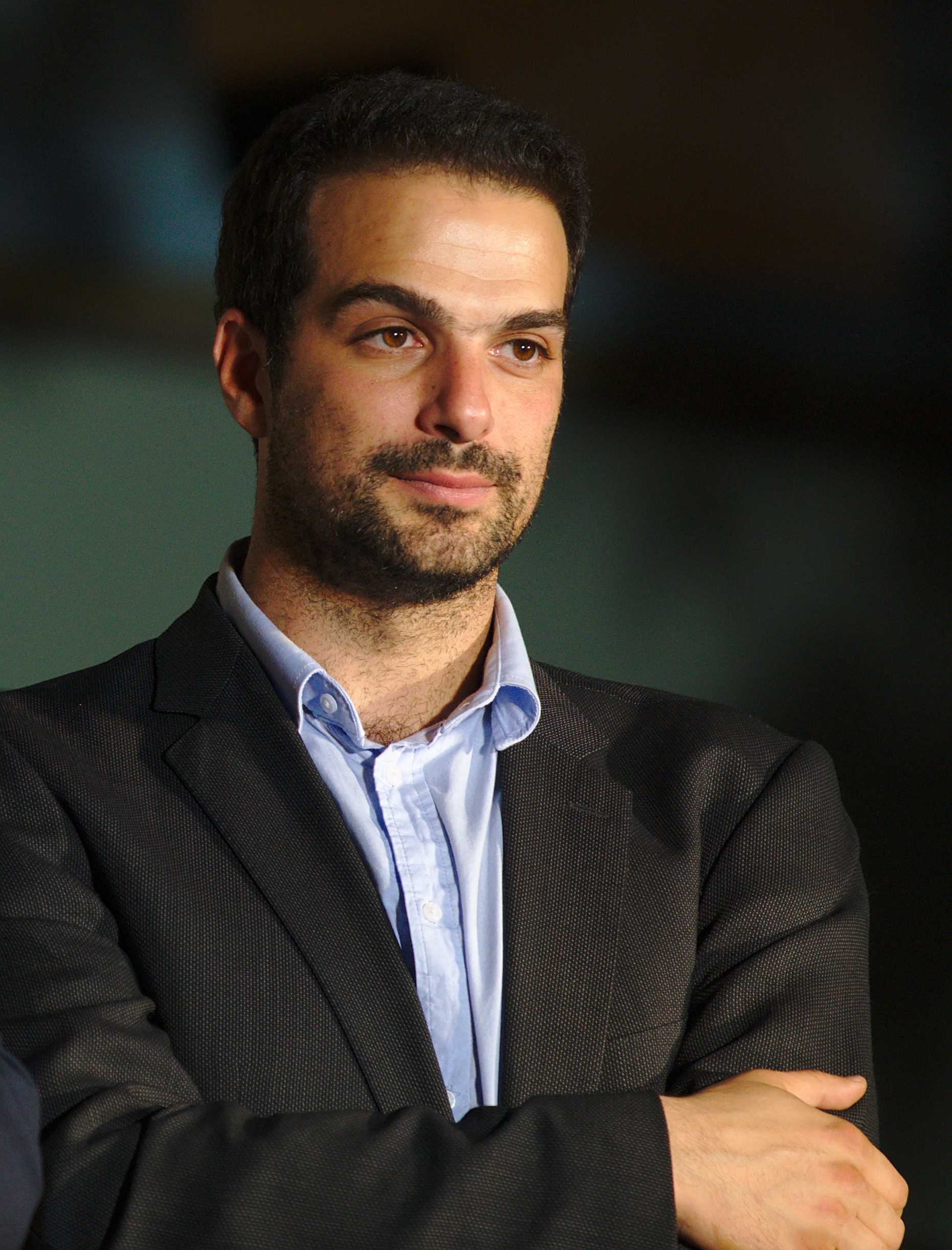 Gabriel Sakellaridis appears on stage after the May 25 2014 election results are known